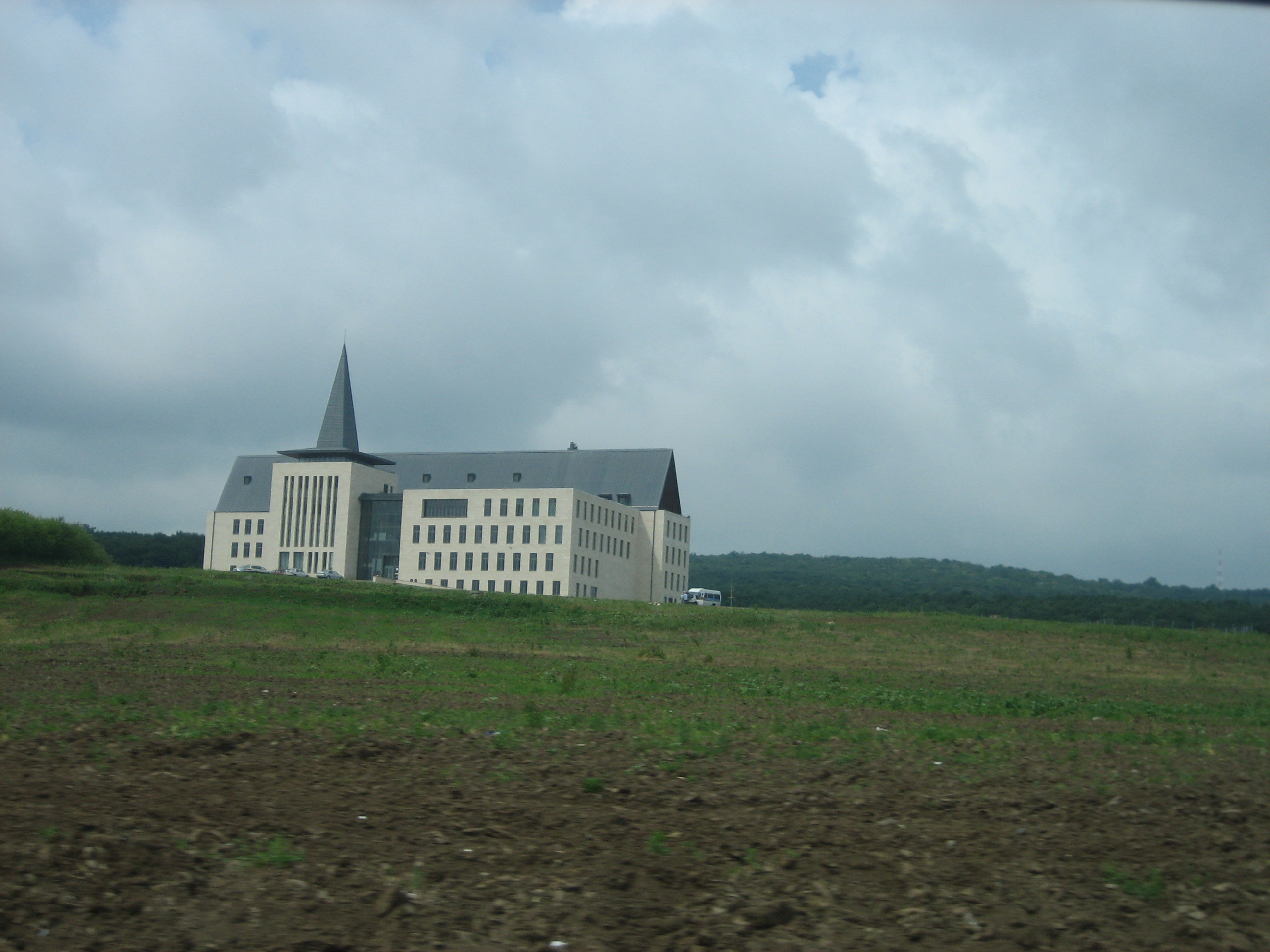 The building of Sapientia Hungarian University of Transylvania in Marosvásárhely (Târgu Mureş)